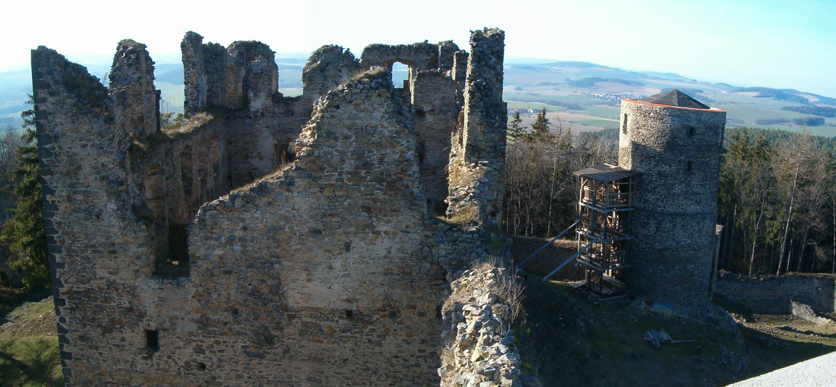 Helfenburk near Bavorov - panorama from easten tower, South Bohemia.